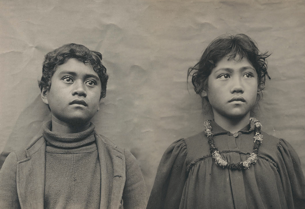 Native Hawaiian schoolchildren, Photograph by Henry Wetherbee Henshaw.